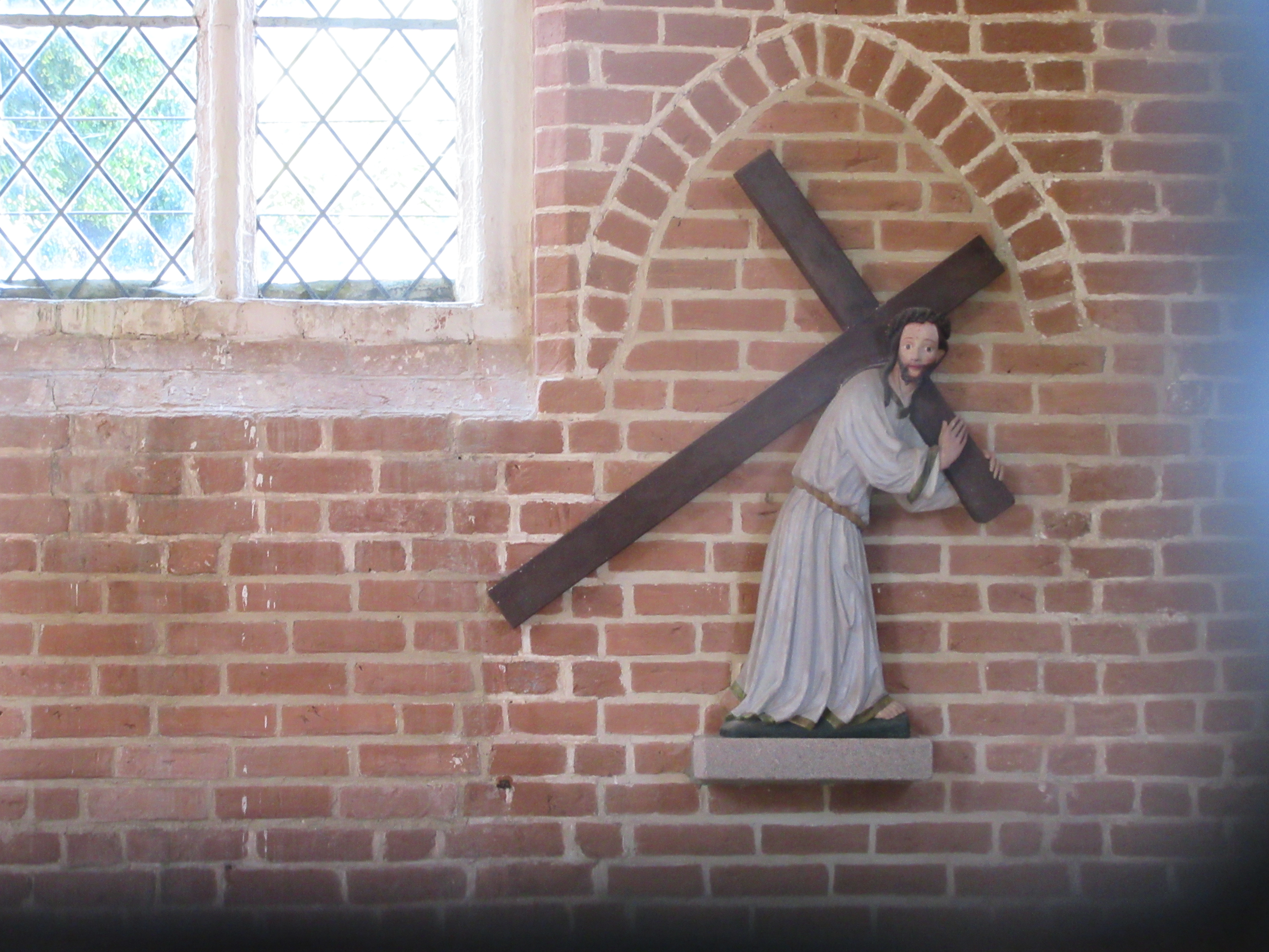 Church in Retgendorf